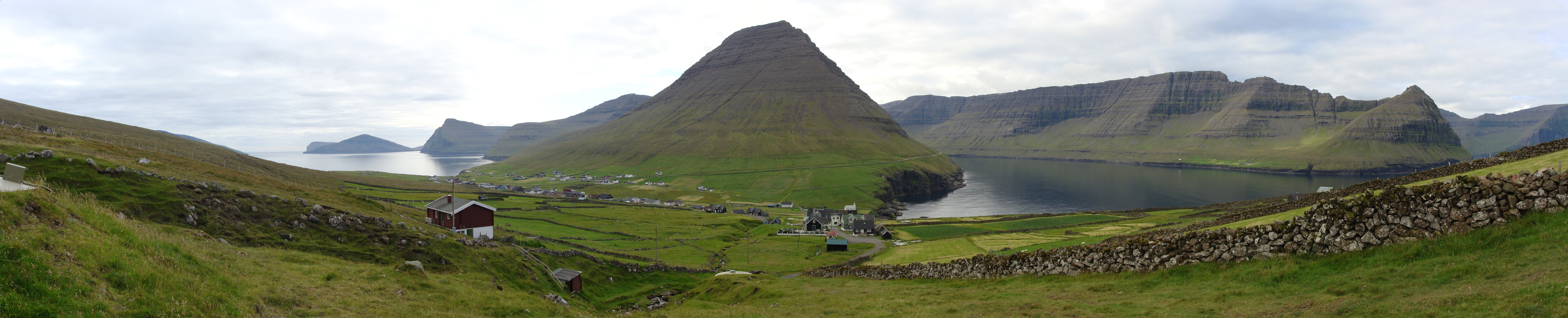 Town of Vidareidi, on Faroe Islands